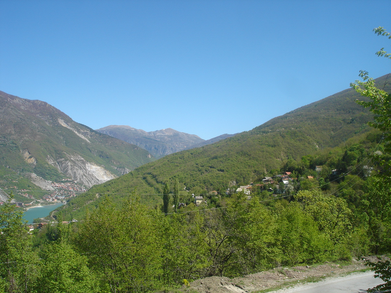 village of Dolno Melnichani, near Debar, Macedonia